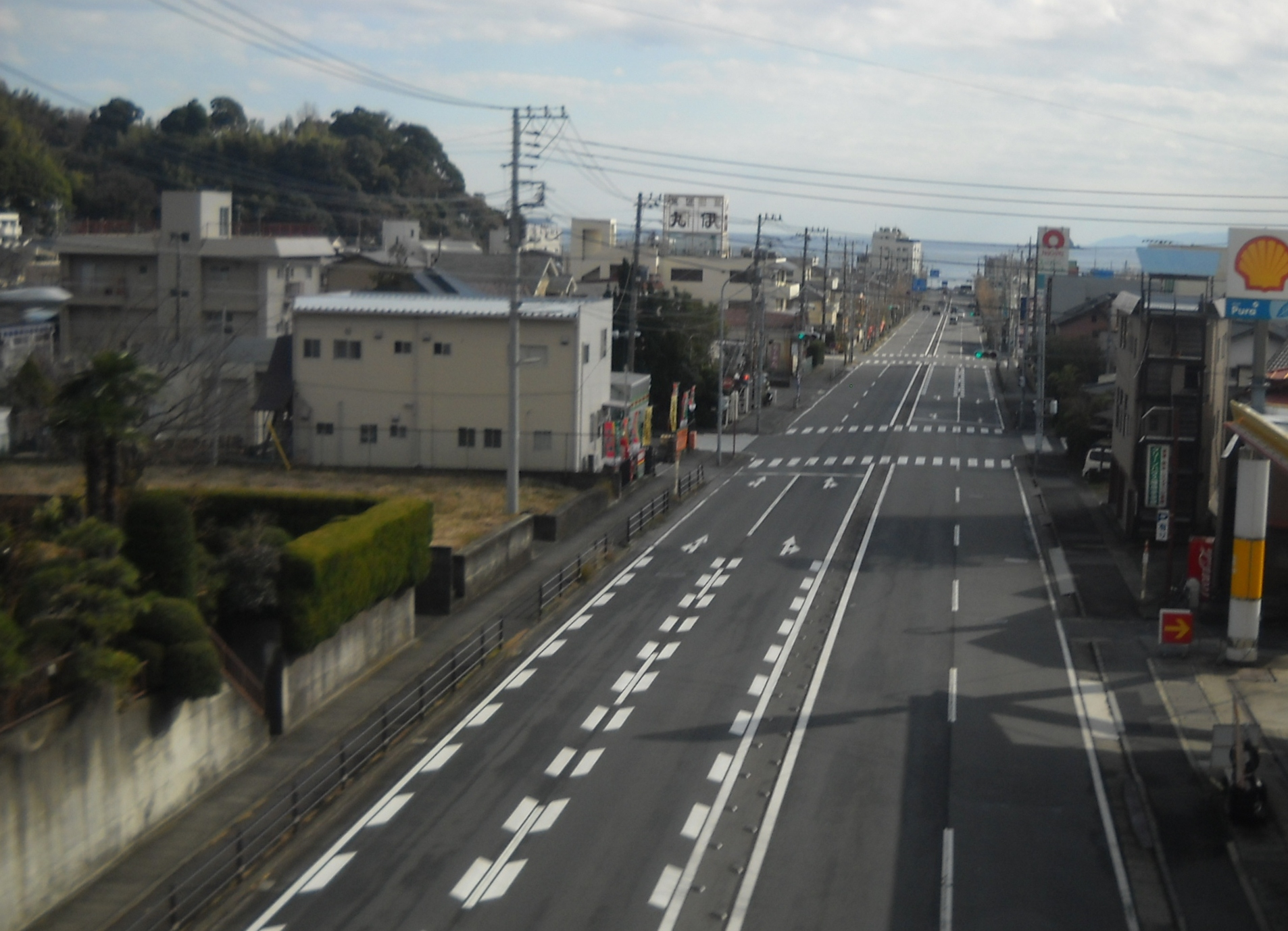 Shizuoka prefectural road route 19, Usami, Ito city, Shizuoka pref., Japan